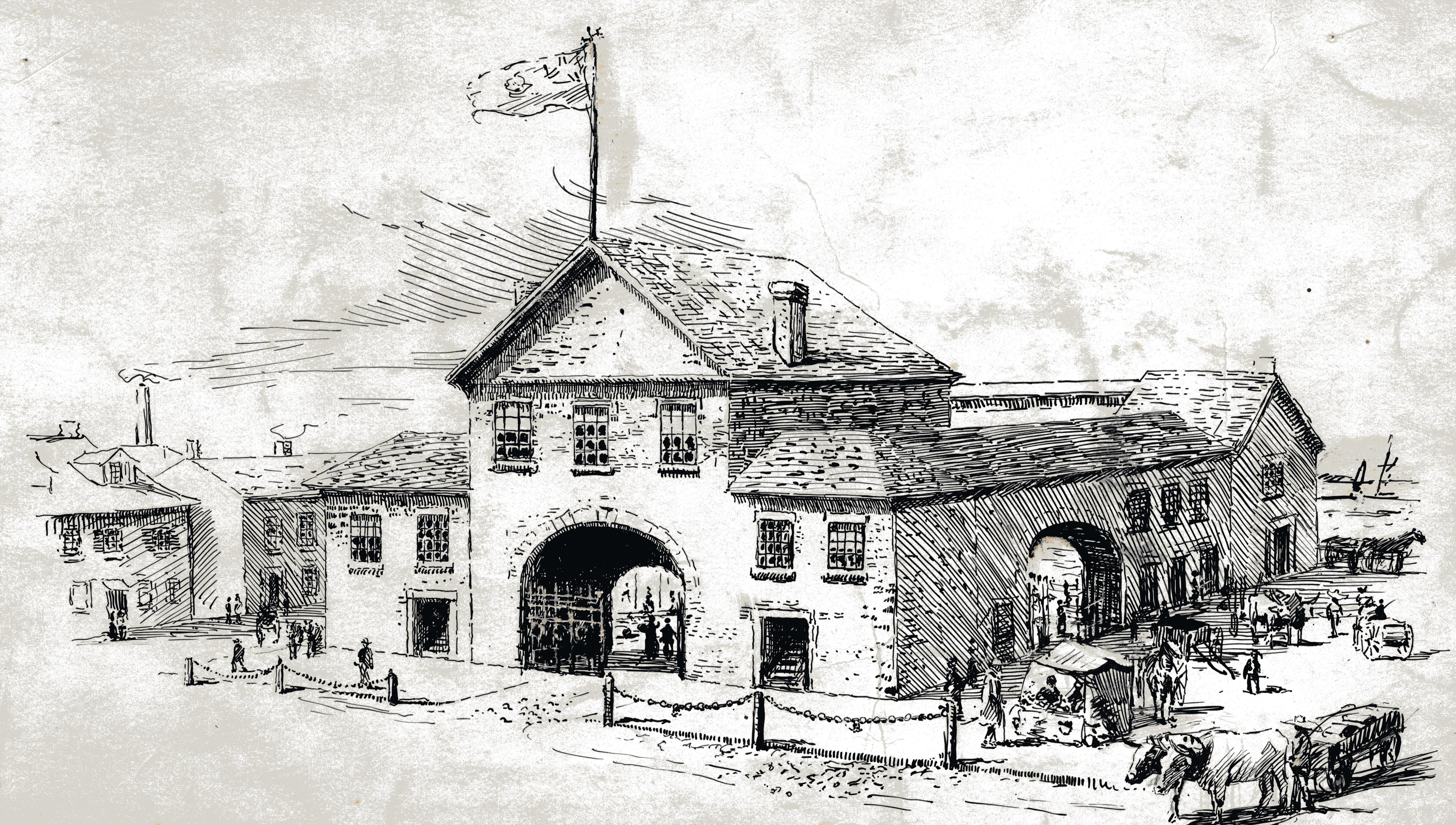 Second market building in York (now Toronto). It replaced the original wooden market building in 1831, and ran from King Street to Front Street (site of the current St. Lawrence Hall and the north St. Lawrence Market building). This building along with much of the City, was destroyed by fire in 1849.